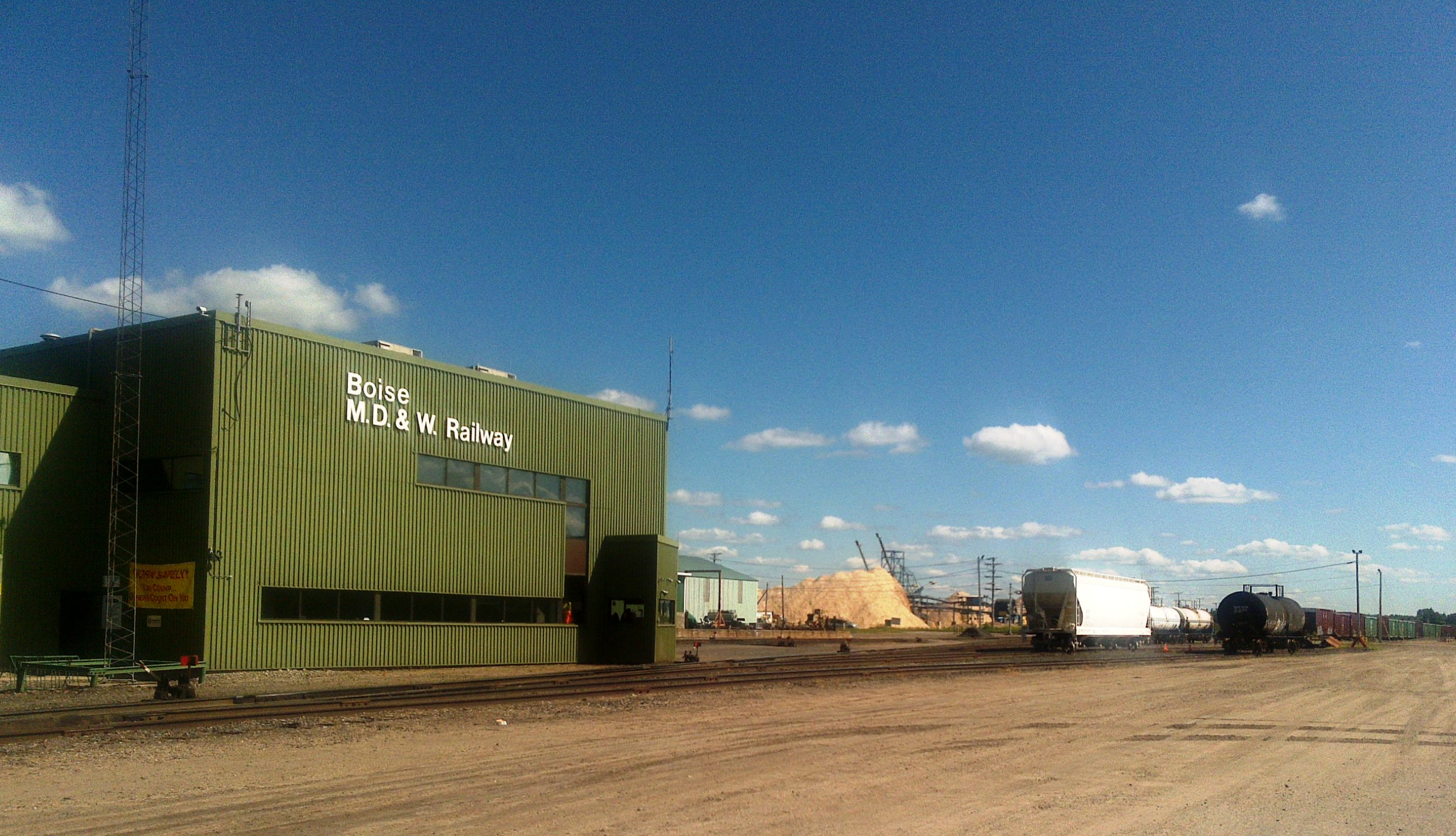 International Falls, Minnesota - Boise MD&W Railway station for cargo freight.